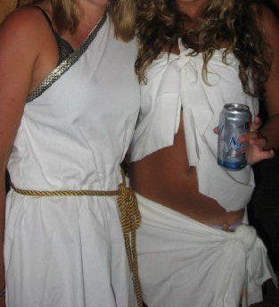 Women wearing togas in a party